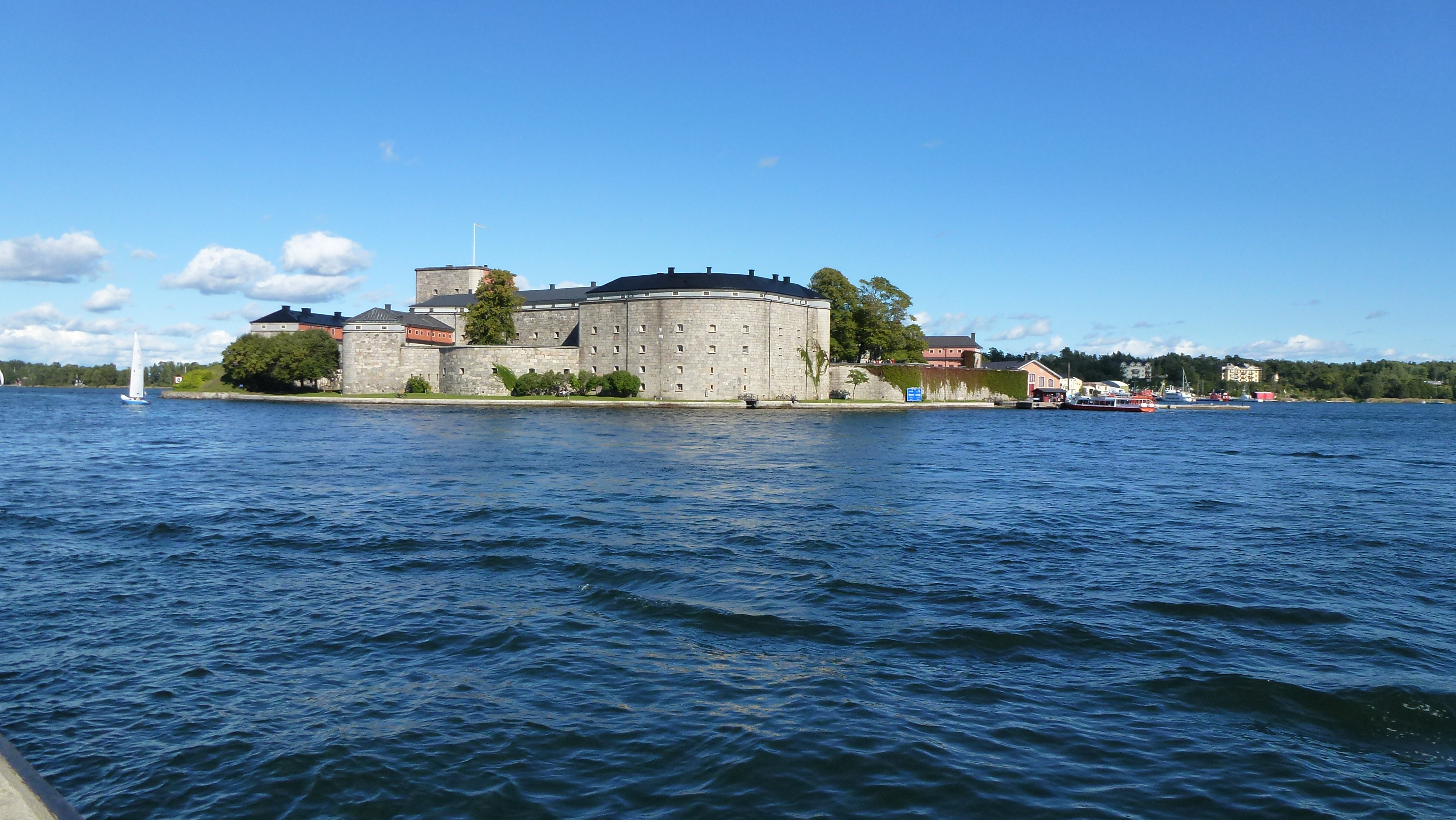 Fortress (Kastellet) on a islet ofshore Vaxholm